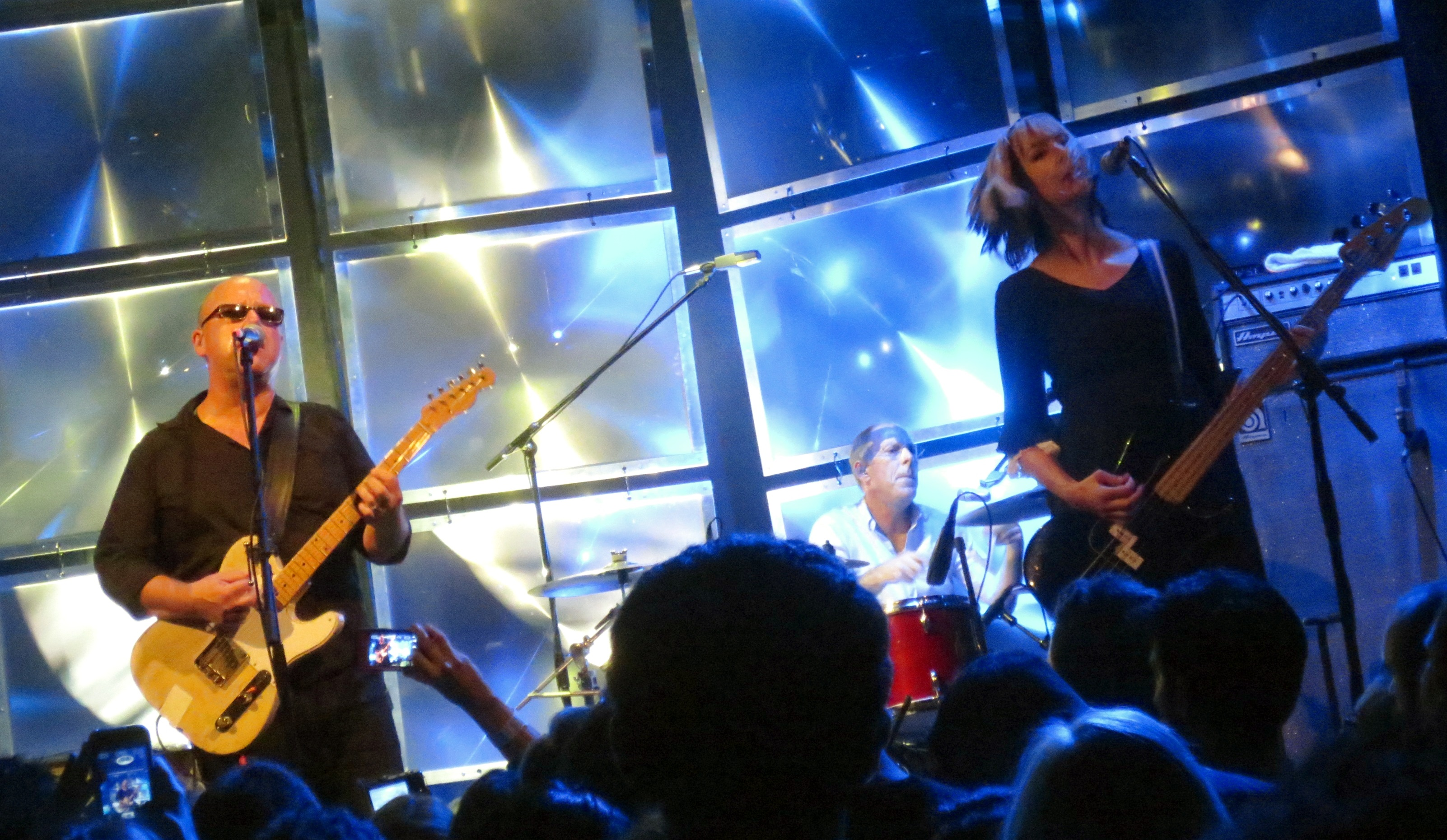 Pixies performing at Bowery Ballroom, New York.